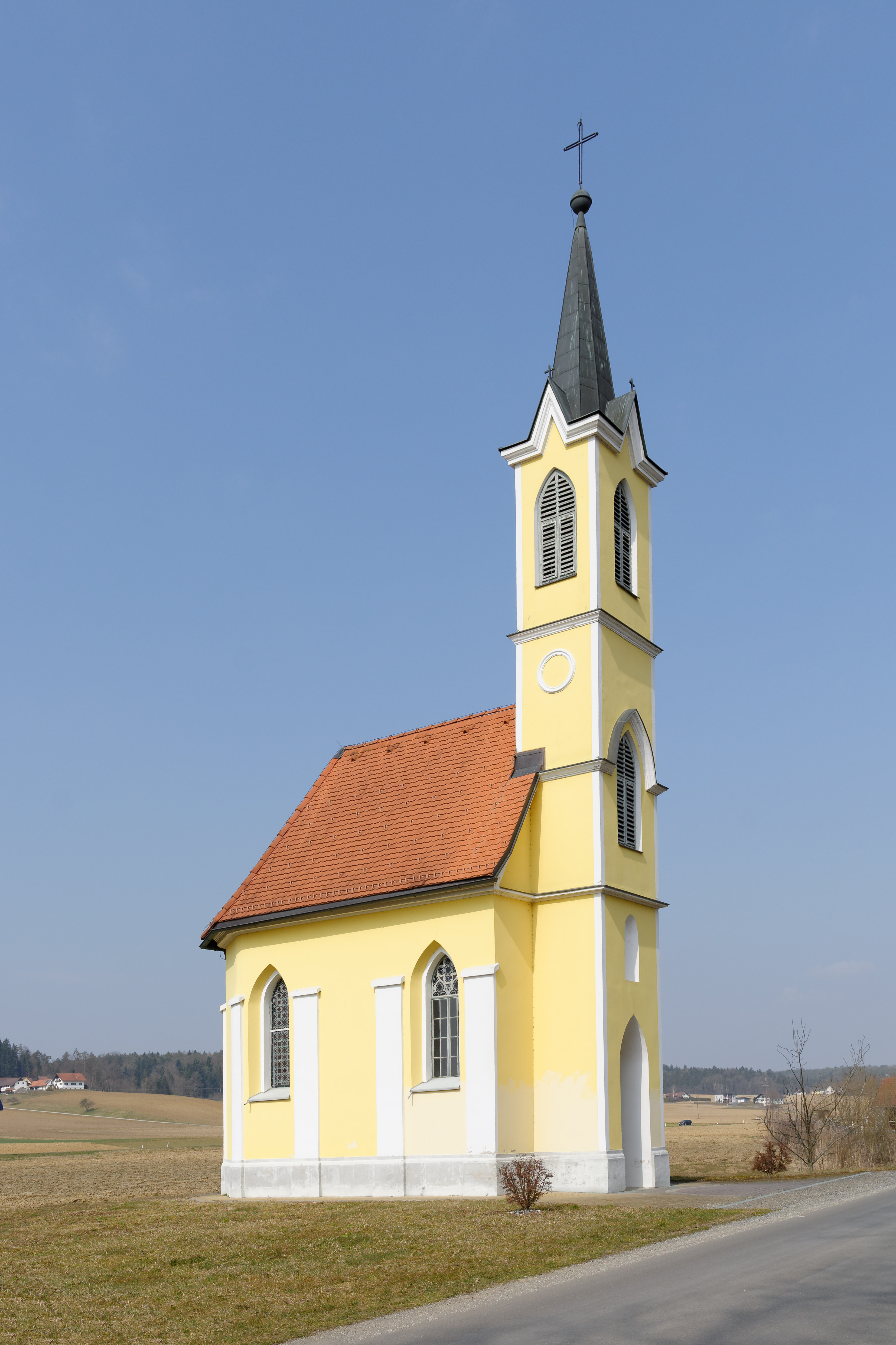 Chapel in Schwarzau, Municipality Schwarzautal, Styria, Austria